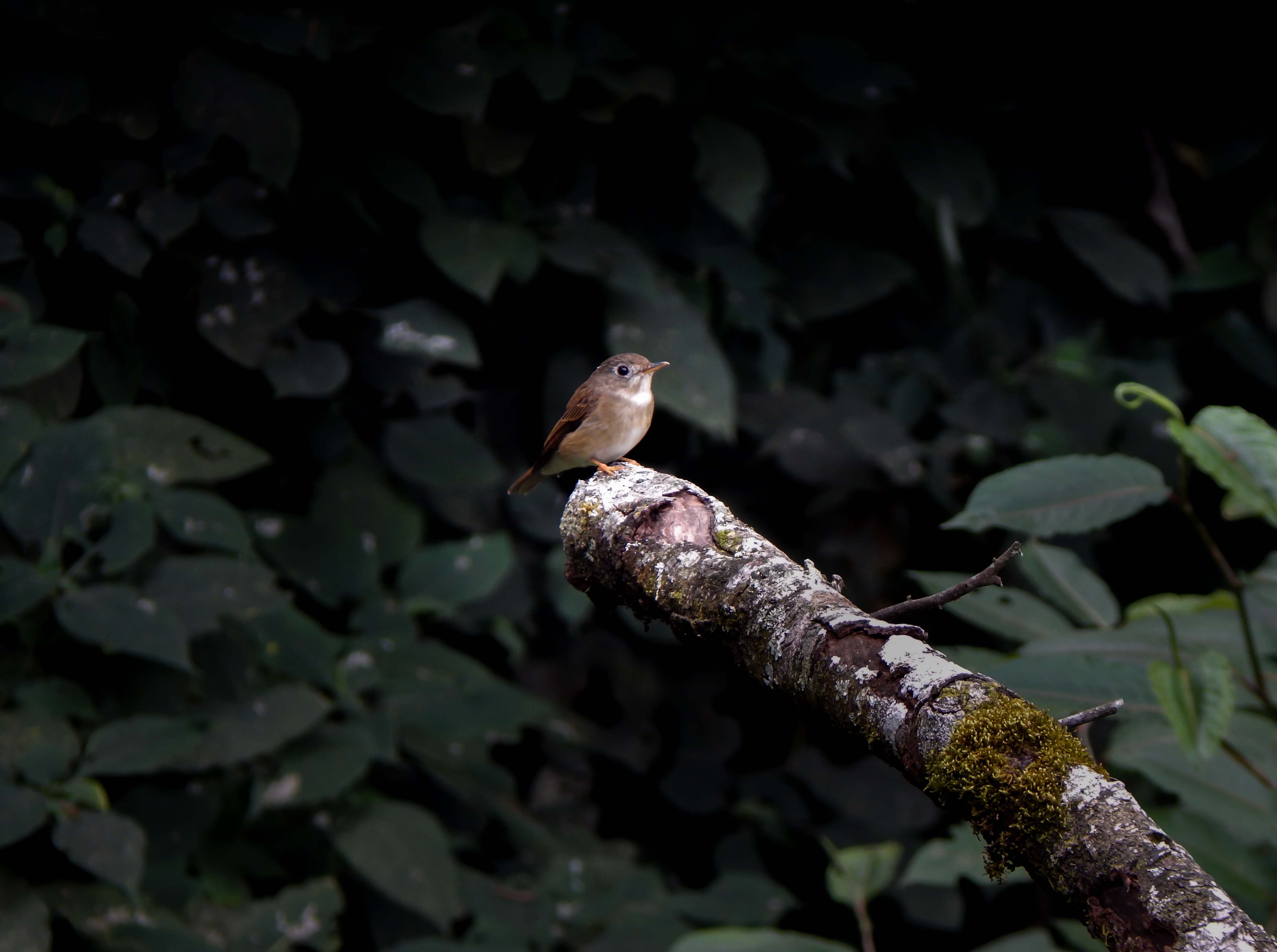 Brown breasted flycather